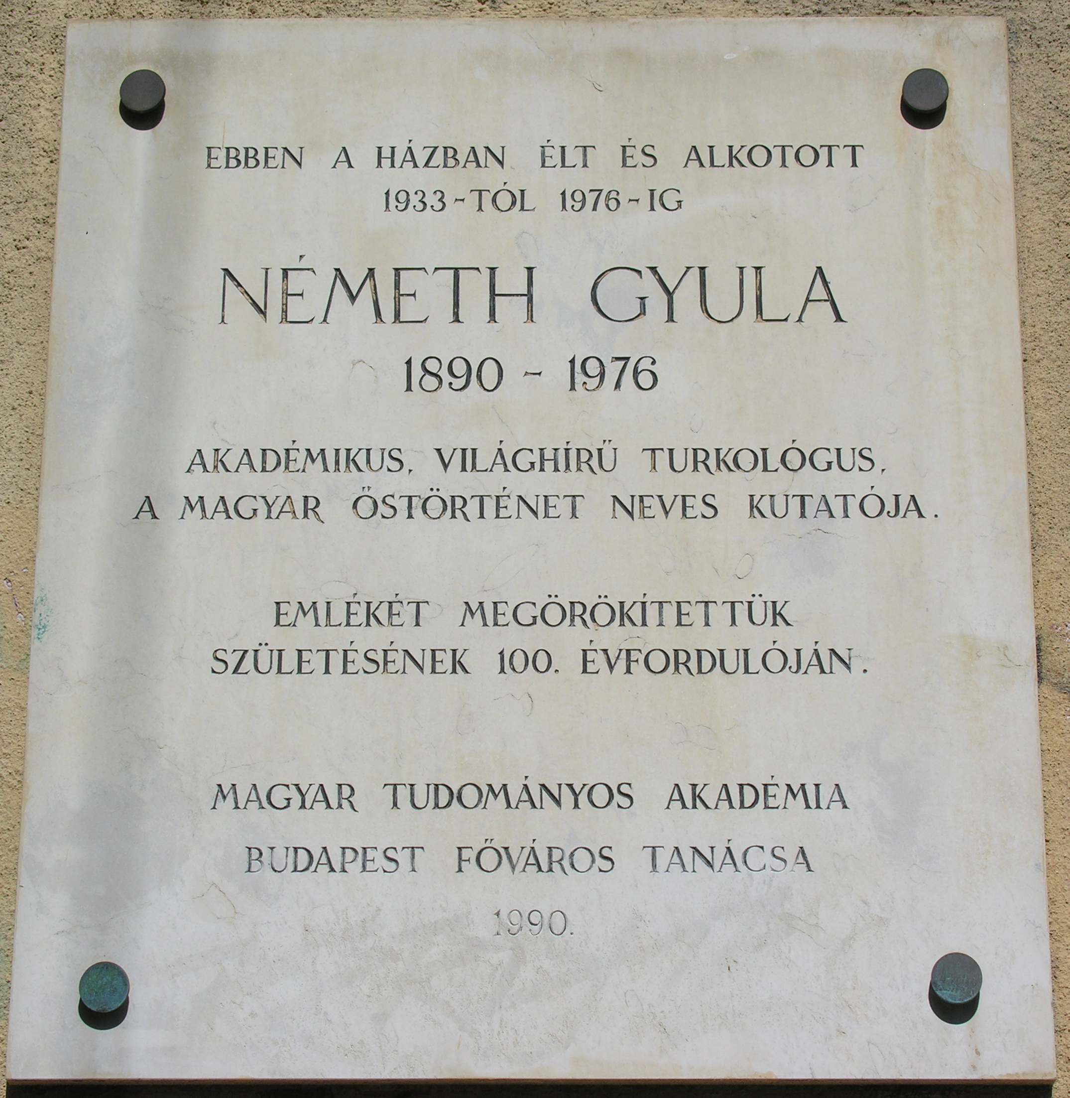 Commemorative plaque of the linguist Gyula Németh in Budapest District XI, Karinthy Frigyes Street No 24